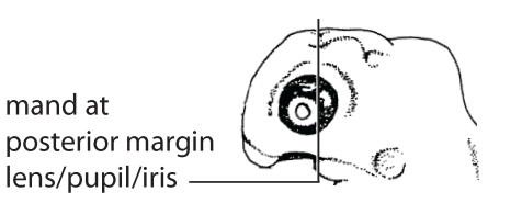 Standard Event System character depiction